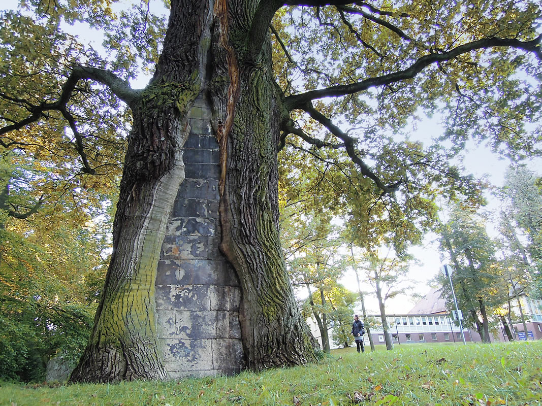 Natural monument 350-year-old oak at Platnersberg park, Nuremberg 2011.